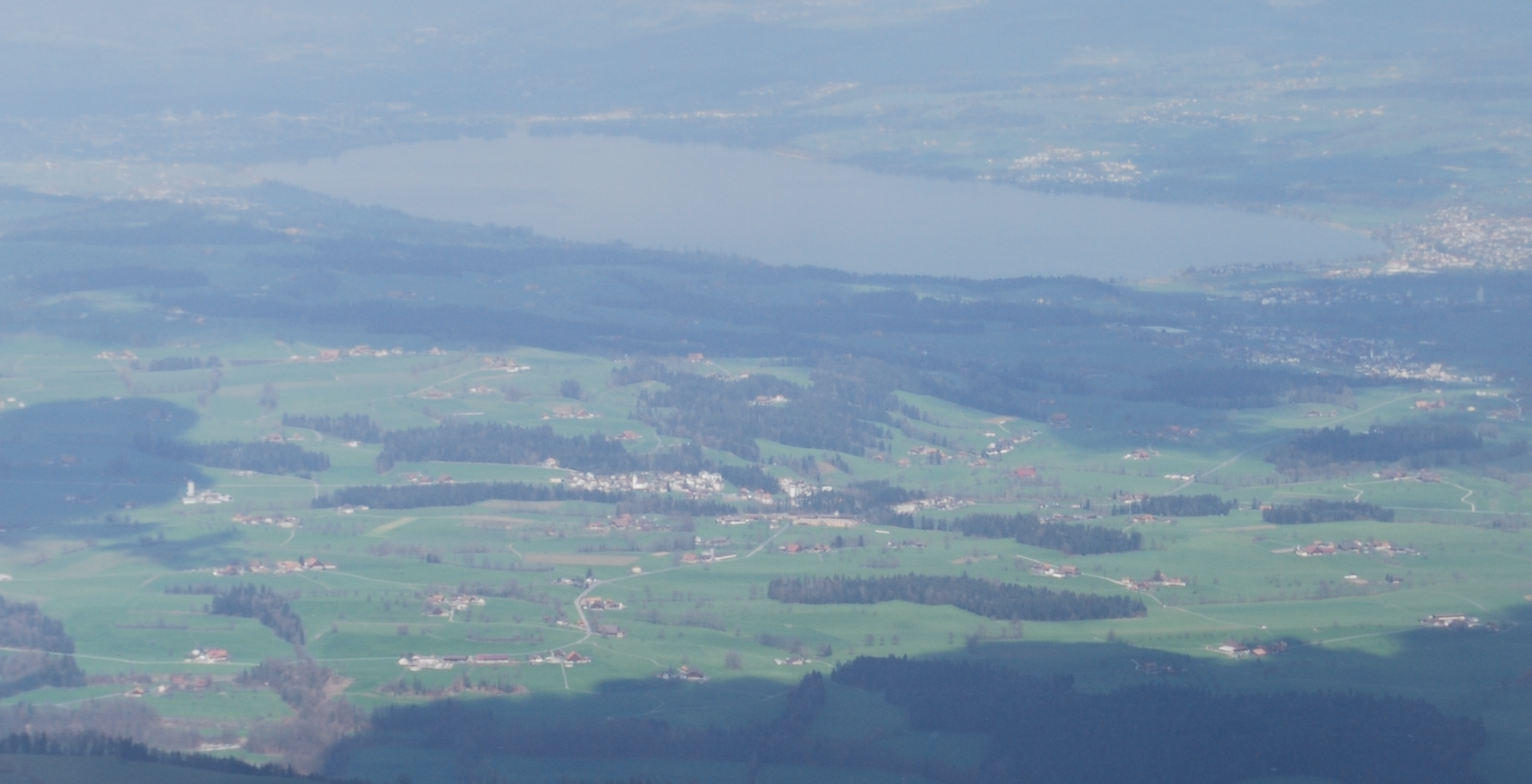 Panoramic view from Pilatus to Ruswil and the Lake Sempach, canton of Luzern, Switzerland.